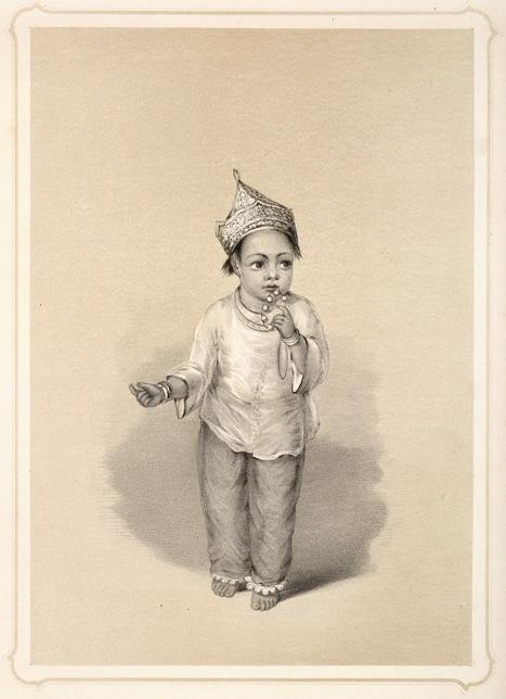 A little Mussulman girl, 1844 lithograph of a little Muslim girl in India wearing paijamas and kurti; the girl was the child of one of the servants of the Governor-General of India, George Eden. Uploaded by Fowler&fowler«Talk» 00:09, 24 November 2008 (UTC)